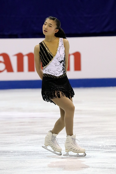 Photos – Junior World Championships 2017 – Ladies